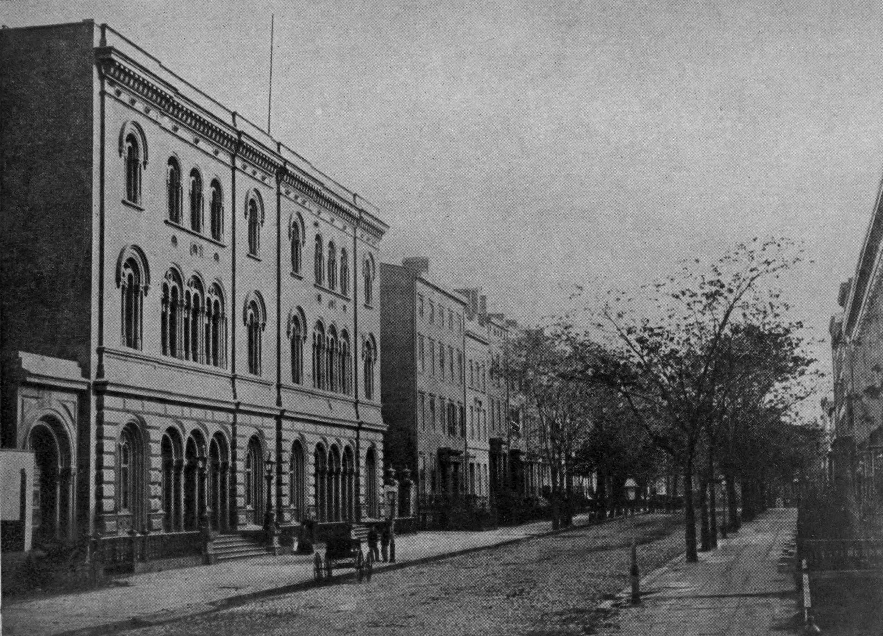 Caption reads: “The Astor Library Building "From a photograph probably taken about 1870”